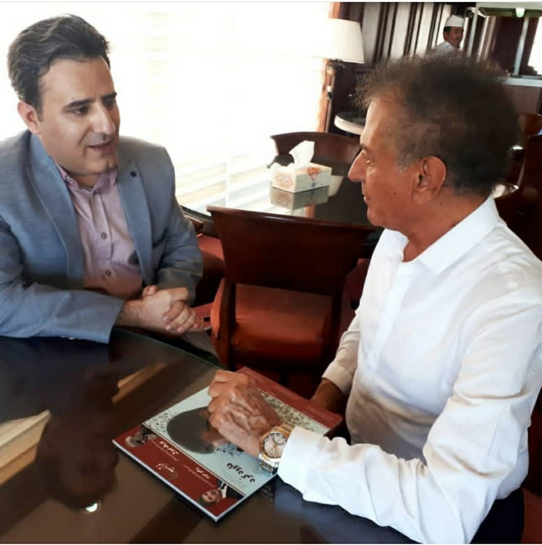 Mazhar Khaleqi and Ardeshir Pashang